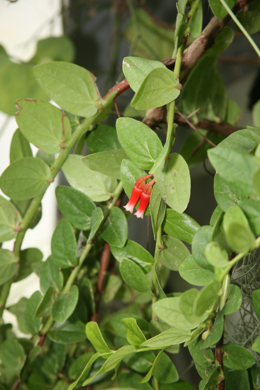 Macleania insignis